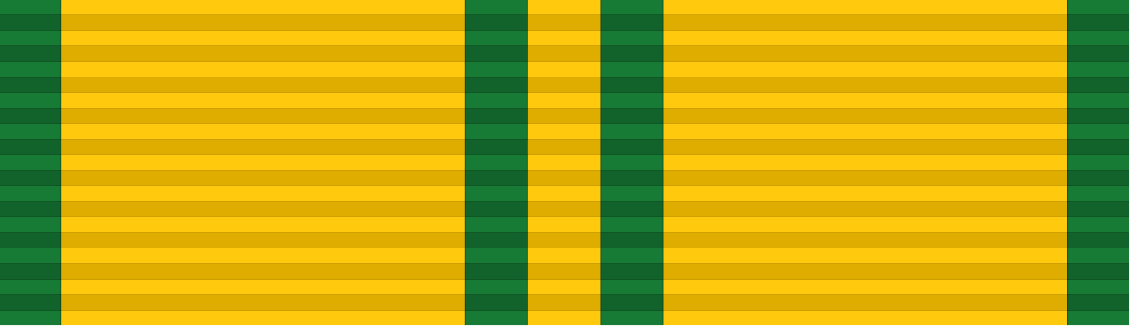 Medal bar for the International Four Days Marches Nijmegen